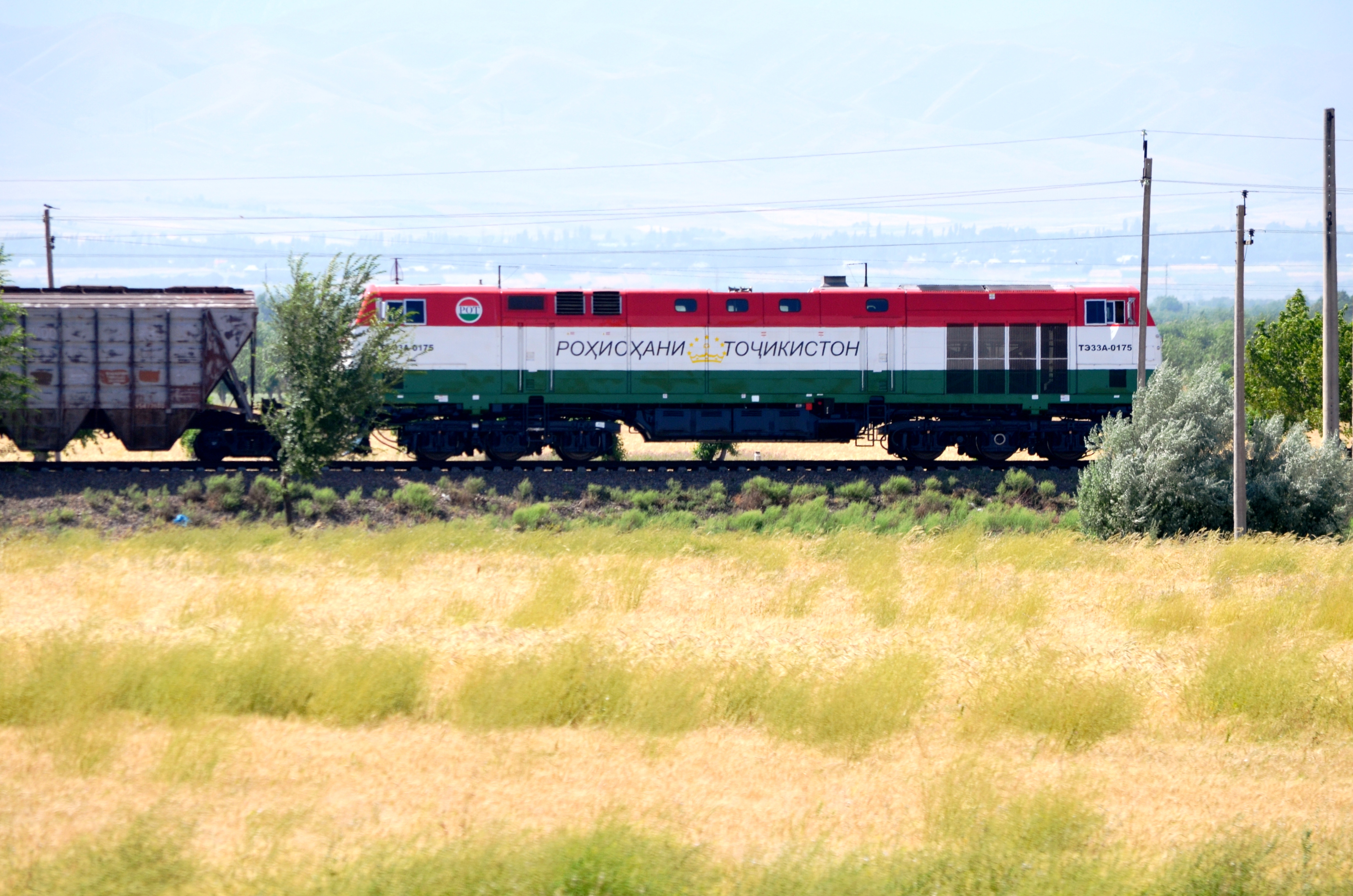 Diesel locomotive TE33A-0175 of Tajikistan Railway with freight train